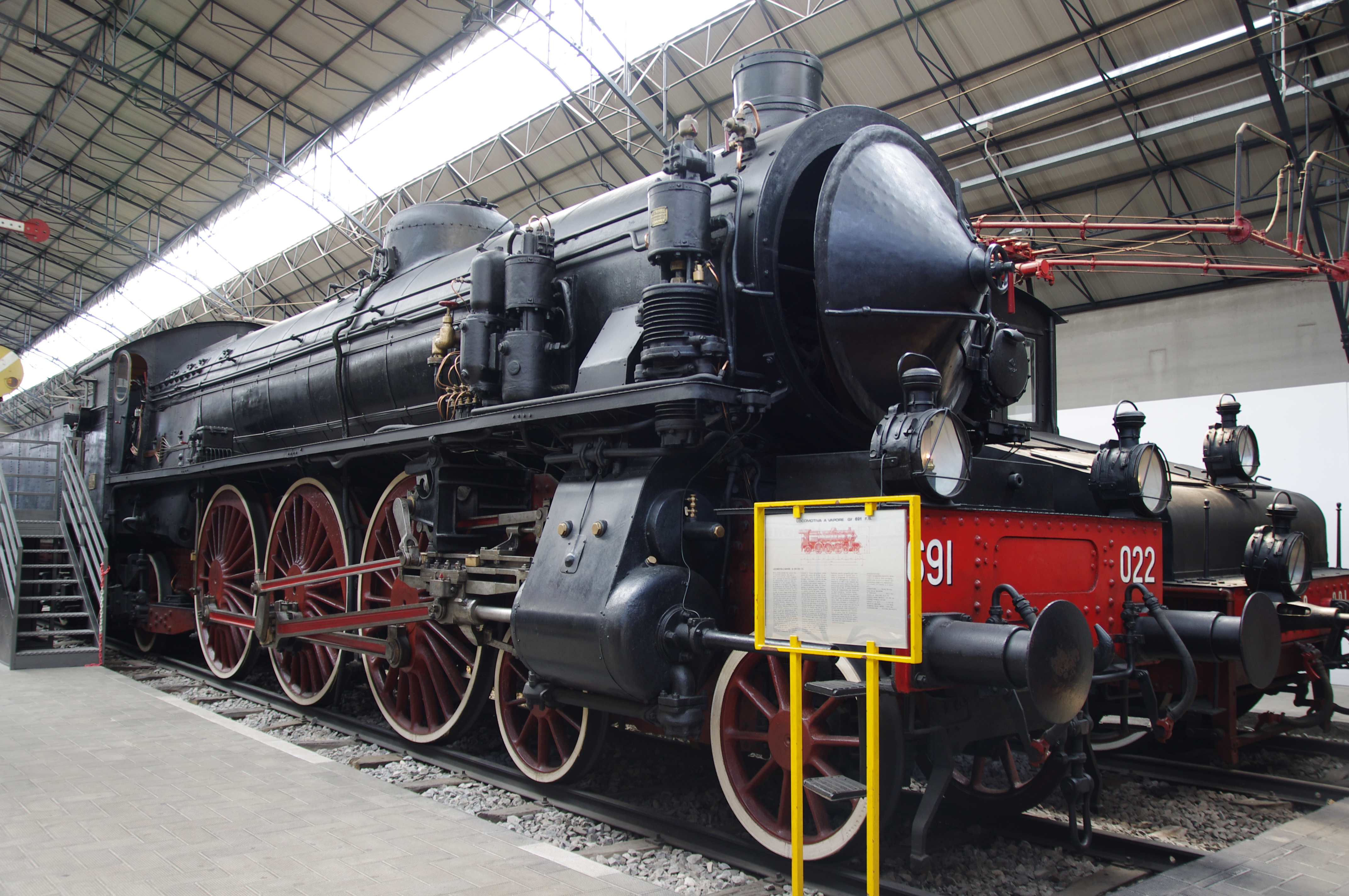 Locomotive FS 691.022 in National Museum of Science and Technology Leonardo da Vinci in Milan